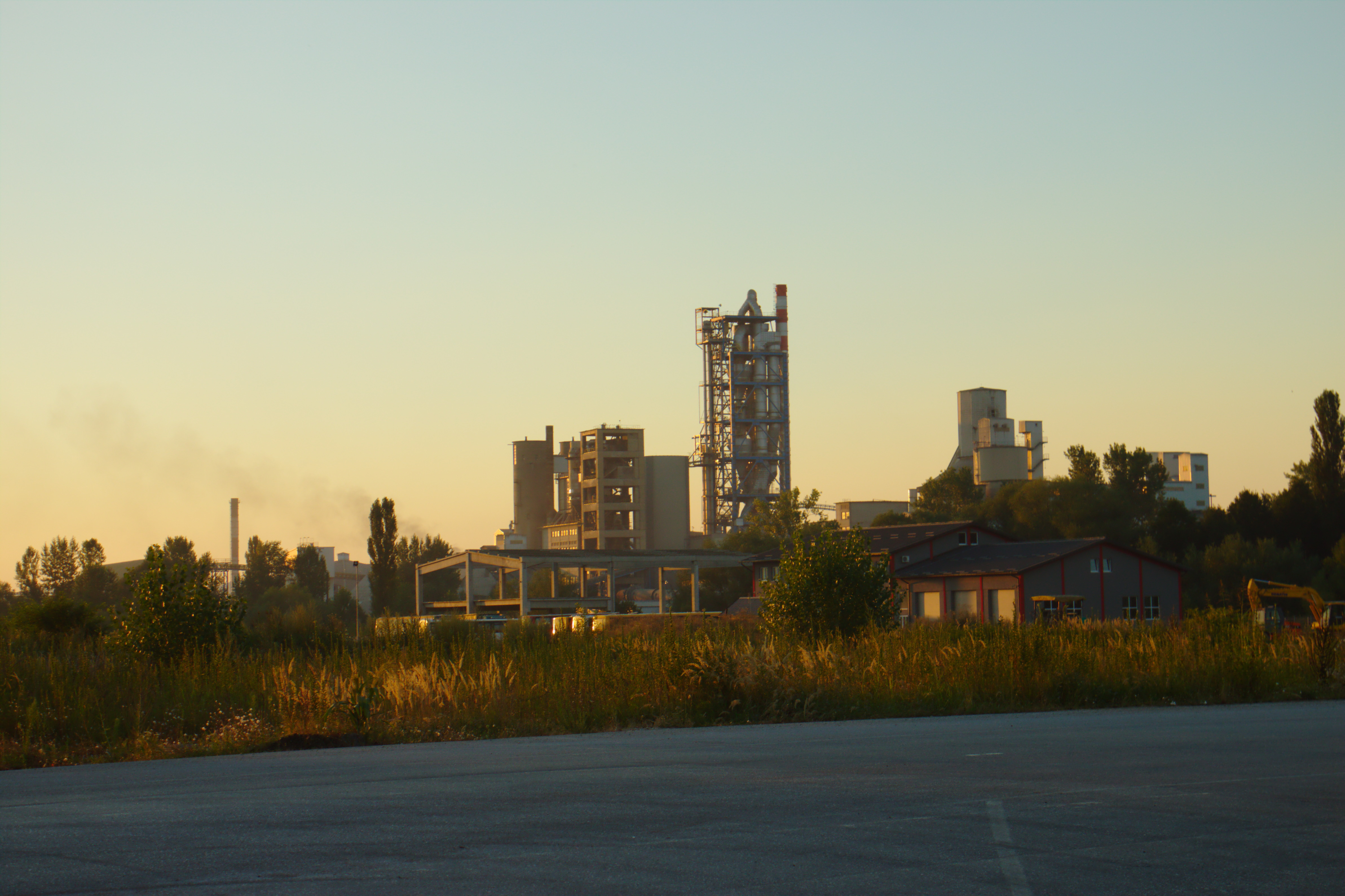 An industrial facility near Lukavac, Bosnia and Herzegovina